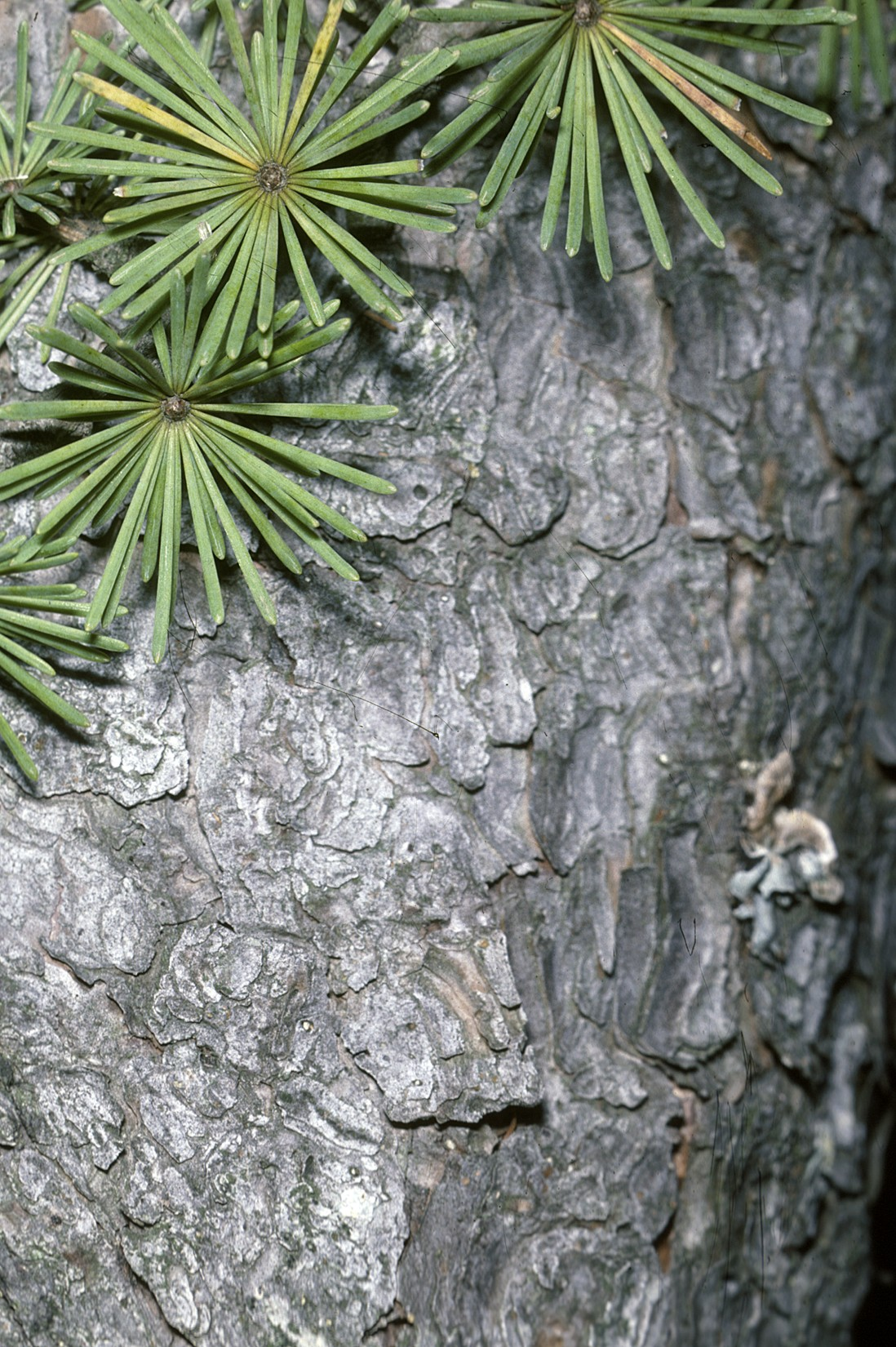 Tamarack. Bark and branch.